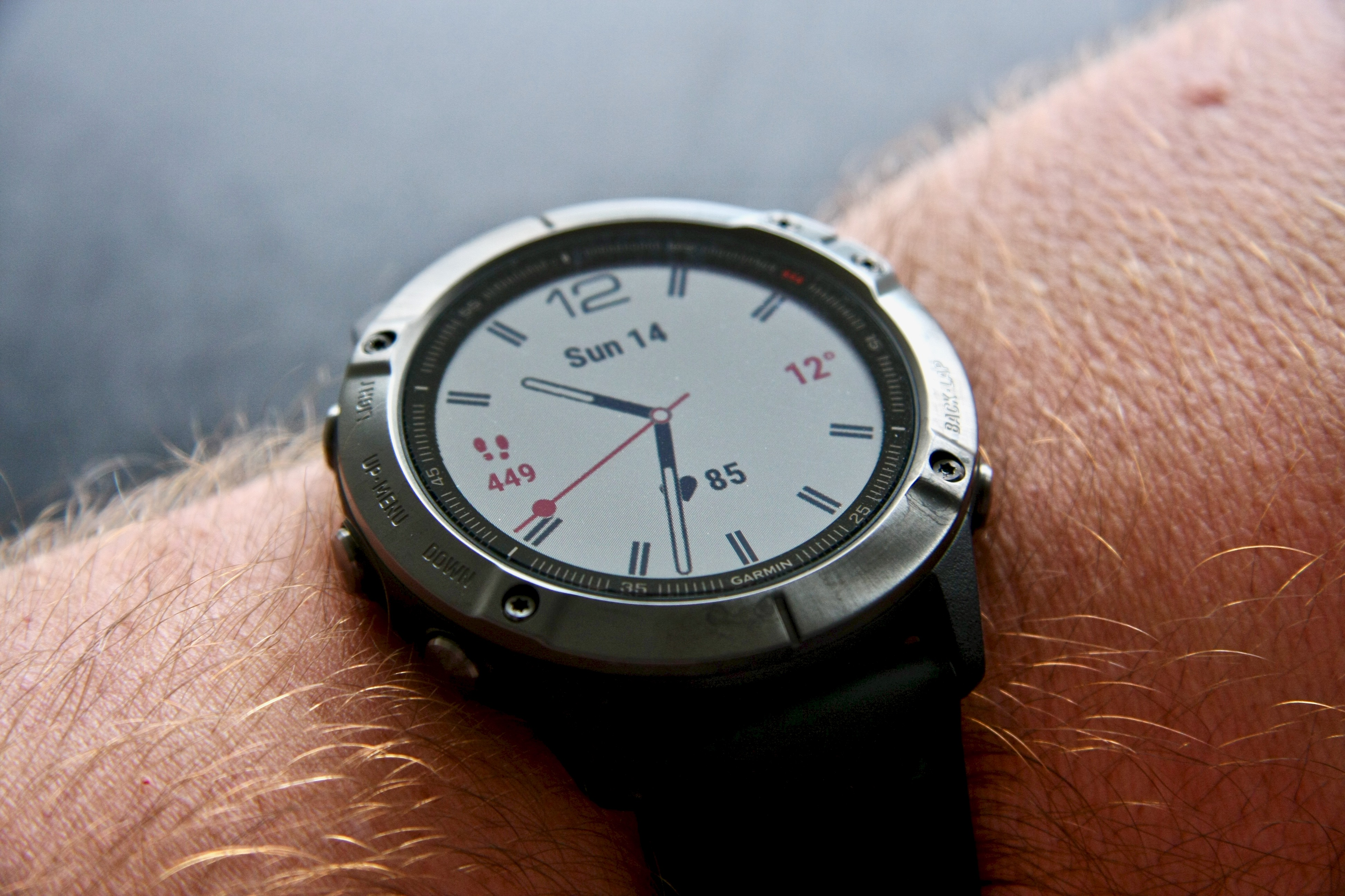 Garmin Fenix 6X Sapphire